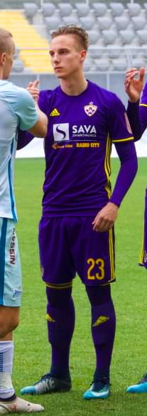 10.02.2018. Турция, Анталия, стадион «Мардан». Вторые зимние «Газпром» — тренировочные сборы: товарищеский матч «Зенит» — «Марибор».